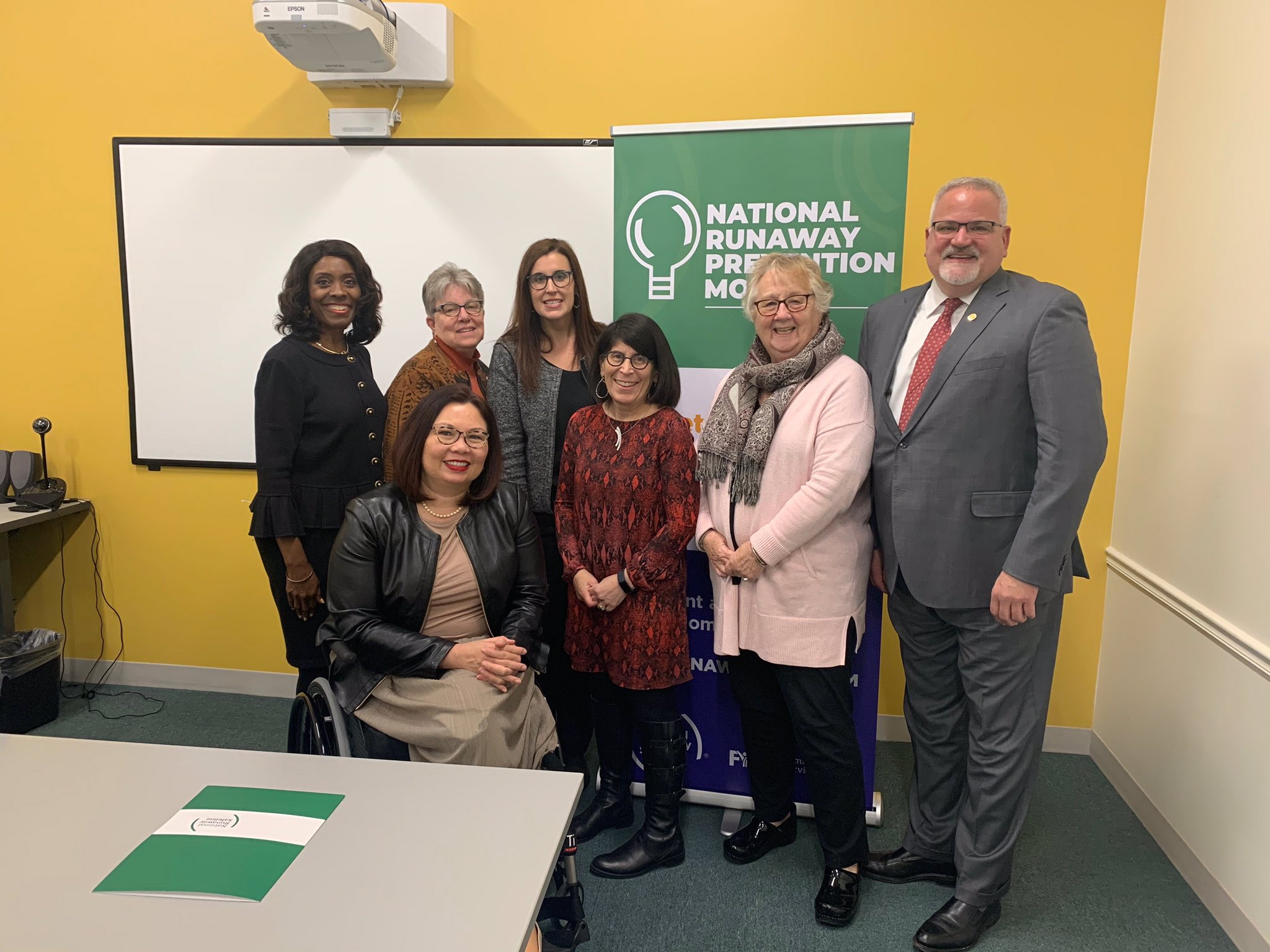 Today, I visited @1800RUNAWAY in Chicago to learn about the important work they’re doing to support runaway youth, teens and their families.